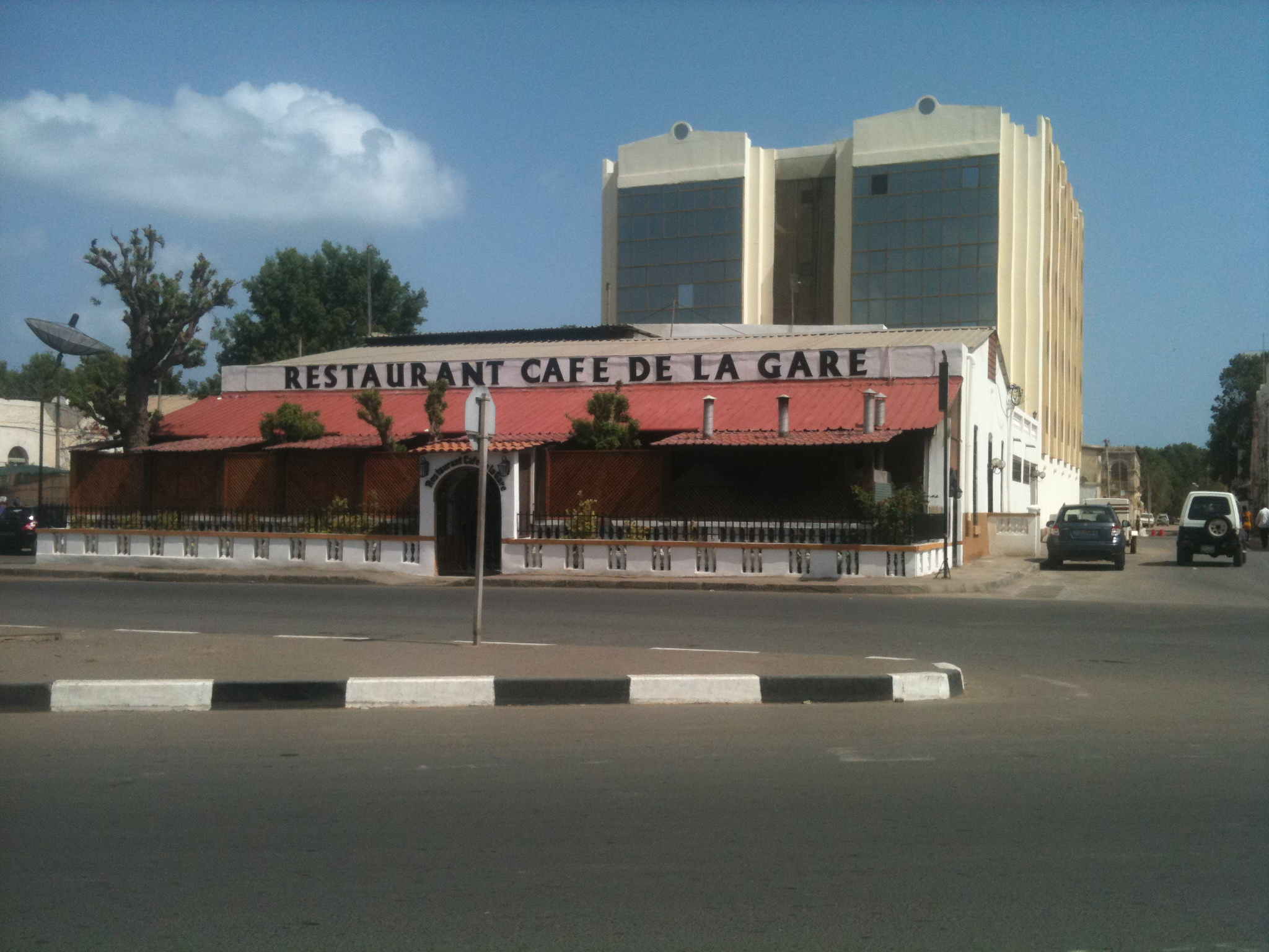 The Café de la Gare in Djibouti City, Djibouti.